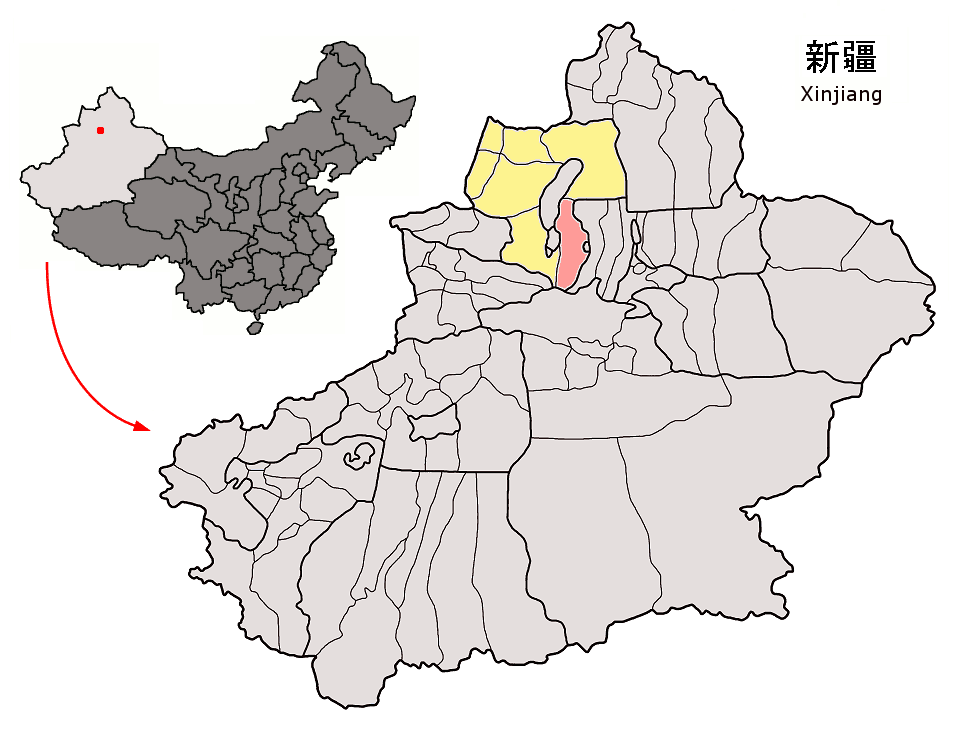 Location of Shawan County (pink) and Tacheng Prefecture (yellow) within Xinjiang autonomous region of China Map drawn in september 2007 using various sources, mainly : Xinjiang Uygur autonomous region administrative regions GIS data: 1:1M, County level, 1990 Xinjiang Counties map from